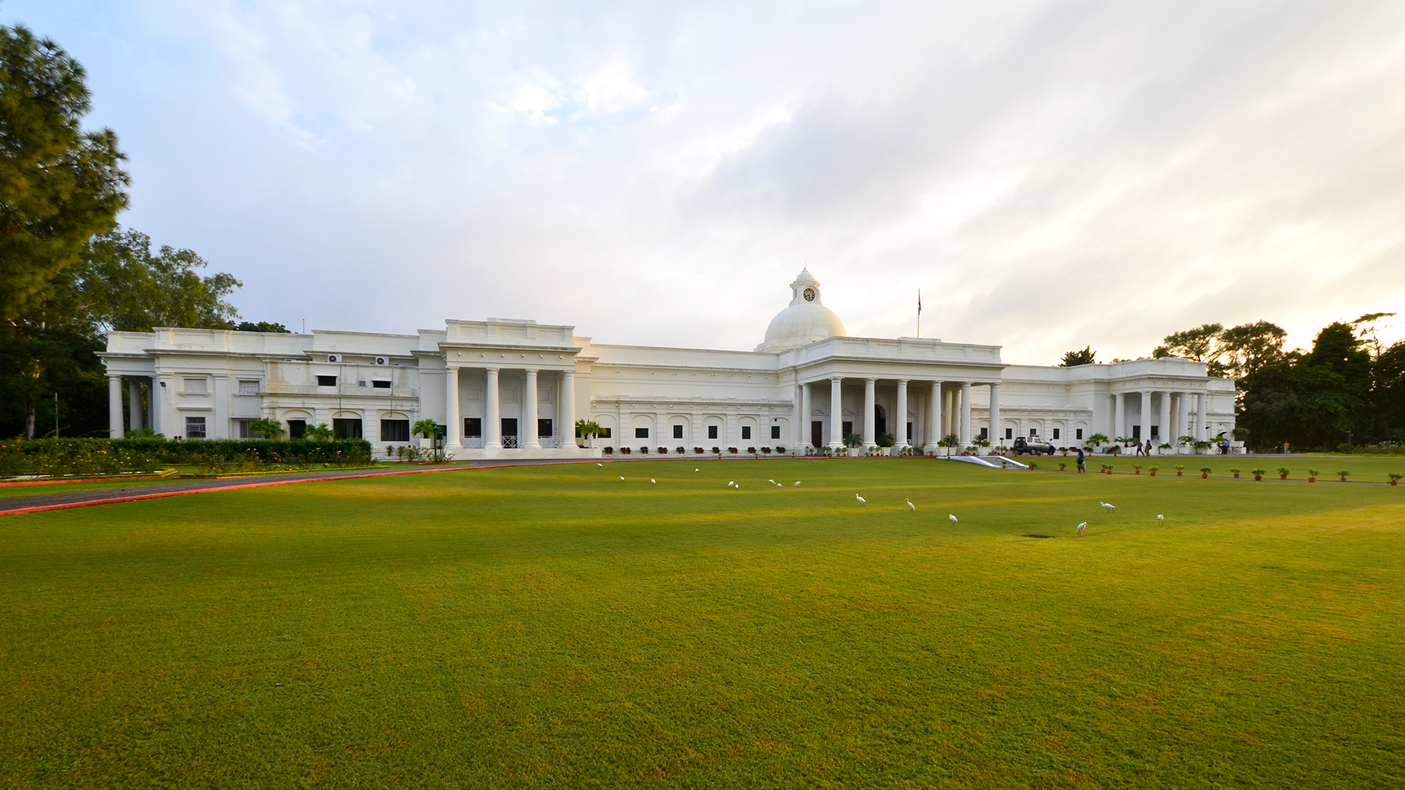 James Thomason Building, IIT-Roorkee